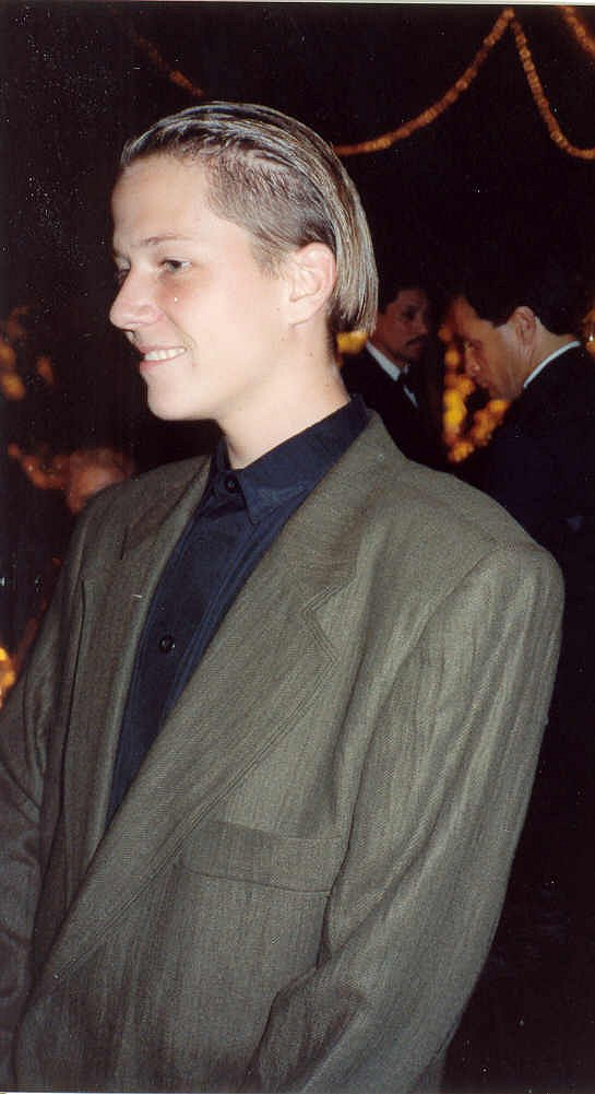 Corin Nemecat at the 41st Emmy Awards 9/17/89